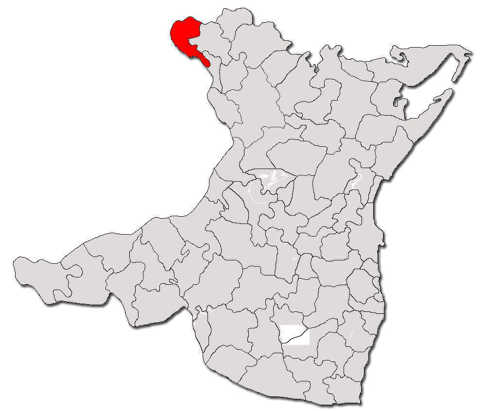 Contour map of Jarsova city